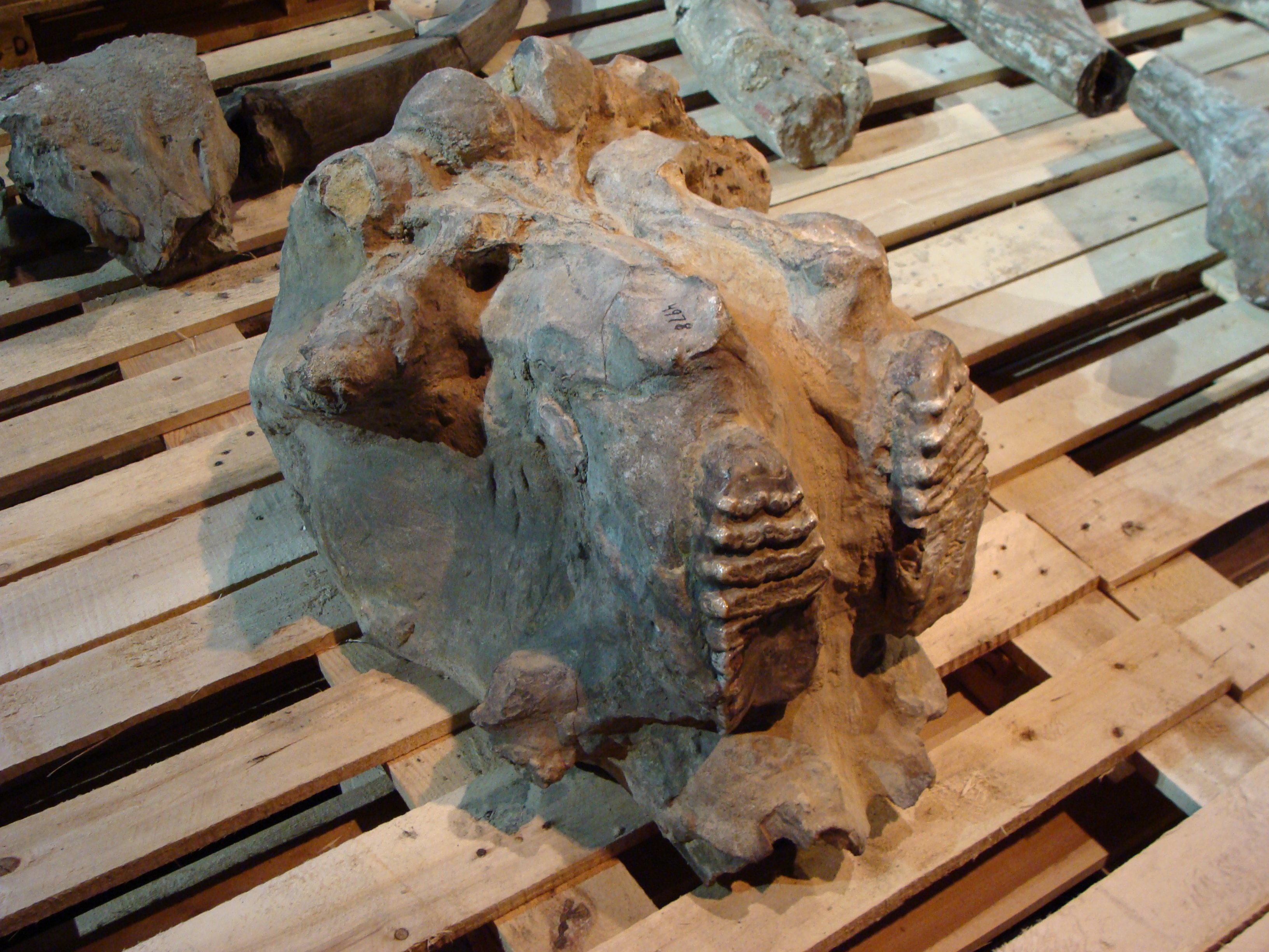 Skull with molars of Stegodon trigonocephalus, a stegodont elephant from Java, Indonesia. It was on display at the exhibition 'Dubois' in the National Museum of Natural History 'Naturalis' in Leiden, the Netherlands.